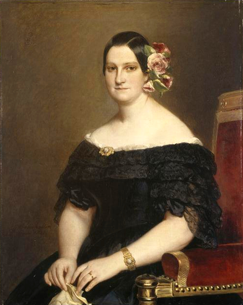 Maria Christina of the Two Sicilies, Spanish queen-consort